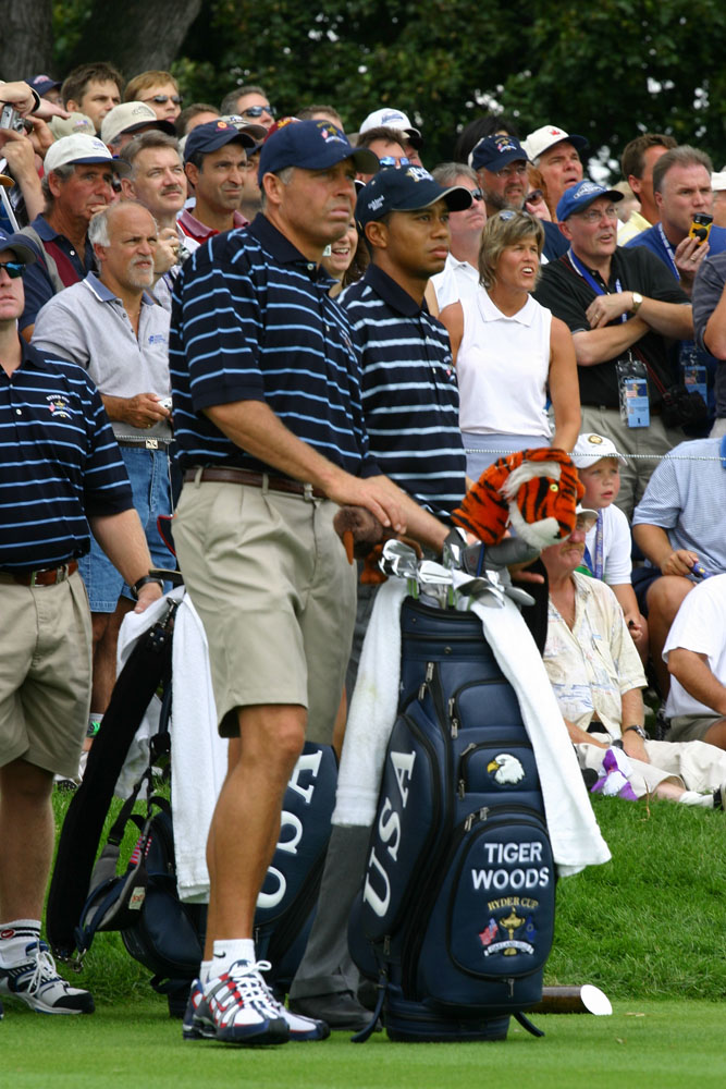 Tiger Woods with his caddy Steve Williams during a practice session the day before the 2004 Ryder Cup at the Oakland Hills Country Club in Bloomfield Hills, Michigan.